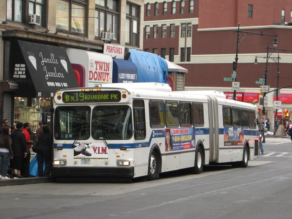 NYCTA New Flyer D60HF bus 5663 in the Bronx, New York, on the Bx19 line.